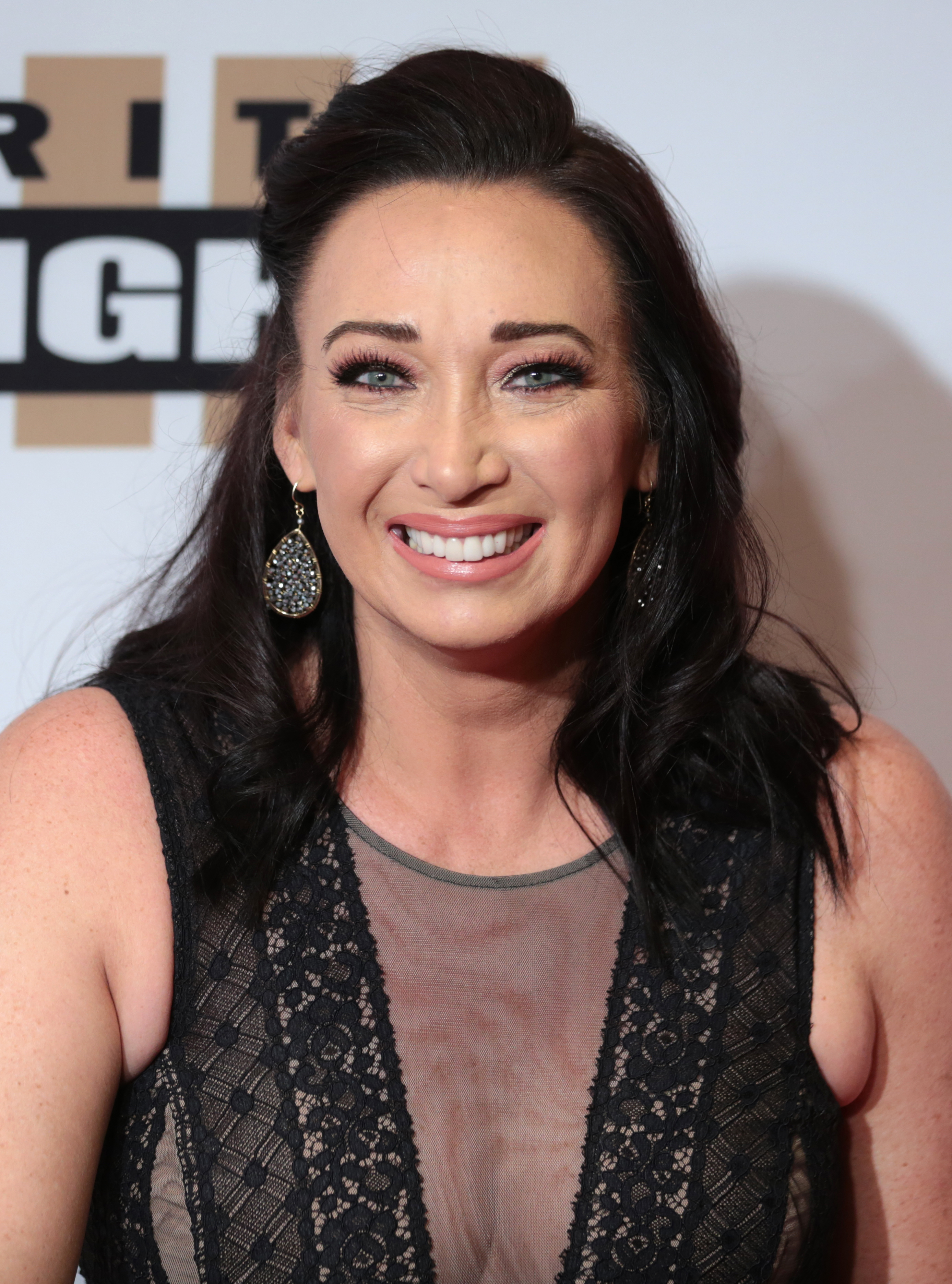 Amy Van Dyken at Celebrity Fight Night XXIII in Phoenix, Arizona.